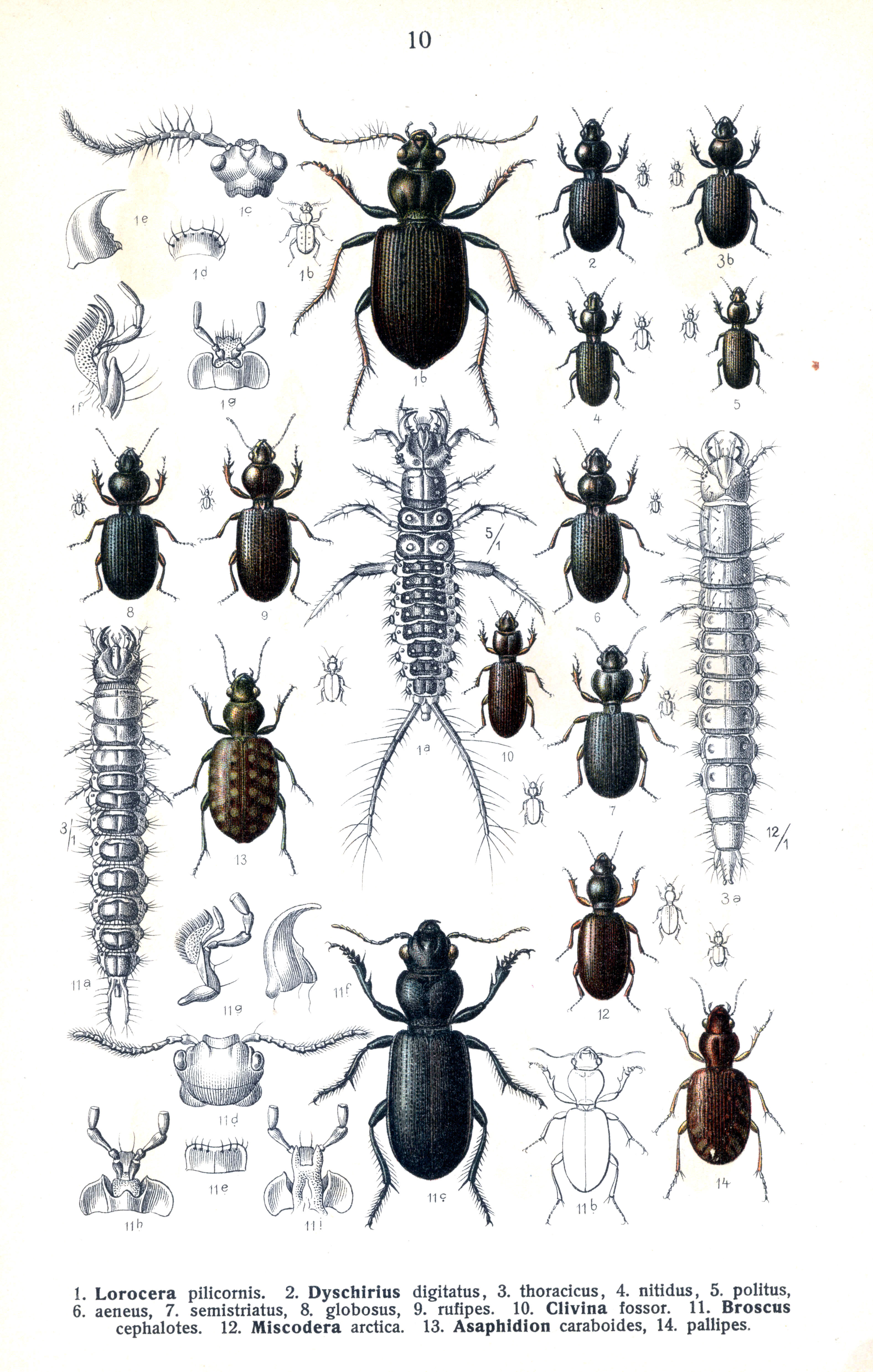 See image for index to numbers. Lorocera pilicornis Fabr. = Loricera pilicornis (Fabricius, 1775) (1a: larva, dorsal view, 1b: adult, dorsal view and size comparison, 1c: adult, head in dorsal view, 1d: labrum of adult, 1e: mandible of adult, 1f: maxilla of adult, 1g: labium of adult) Dyschirius digitatus Dej. = Dyschirius digitatus (Dejean, 1825), adult, dorsal view Dyschirius thoracicus Rossi. = Dyschirius thoracicus (P.Rossi, 1790) (3a: larva, dorsal view, 3b: adult, dorsal view) Dyschirius nitidus Dej. = Dyschiriodes nitidus (Dejean, 1825), adult, dorsal view Dyschirius politus Dej. = Dyschiriodes politus (Dejean, 1825), adult, dorsal view Dyschirius aeneus Dej. = Dyschiriodes aeneus (Dejean, 1825), adult, dorsal view Dyschirius semistriatus Dej. = Dyschiriodes semistriatus (Dejean, 1825), adult, dorsal view Dyschirius globosus Hrbst. = Dyschiriodes globosus (Herbst, 1783), adult, dorsal view Dyschirius rufipes Dej. = Dyschiriodes rufipes (Dejean, 1825), adult, dorsal view Clivina fossor L. = Clivina fossor (Linnaeus, 1758), adult, dorsal view Broscus cephalotes L. = Broscus cephalotes (Linnaeus, 1758) (11a: larva, dorsal view, 11b: adult, size comparison, 11c: adult, dorsal view, 11d: adult, head in dorsal view, 11e: labrum of adult, 11f: mandible of adult, 11g: maxilla of adult, 11h: labium of adult ventral view, 11i: labium of adult dorsal view) Miscodera arctica Payk. = Miscodera arctica (Paykull, 1798), adult, dorsal view Asaphidion caraboides Schrank. = Asaphidion caraboides (Schrank, 1781), adult, dorsal view Asaphidion pallipes Dftsch. = Asaphidion pallipes (Duftschmid, 1812), adult, dorsal view